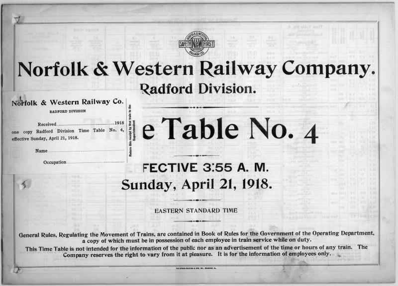 Norfolk and Western Railway timetable, April 21, 1918